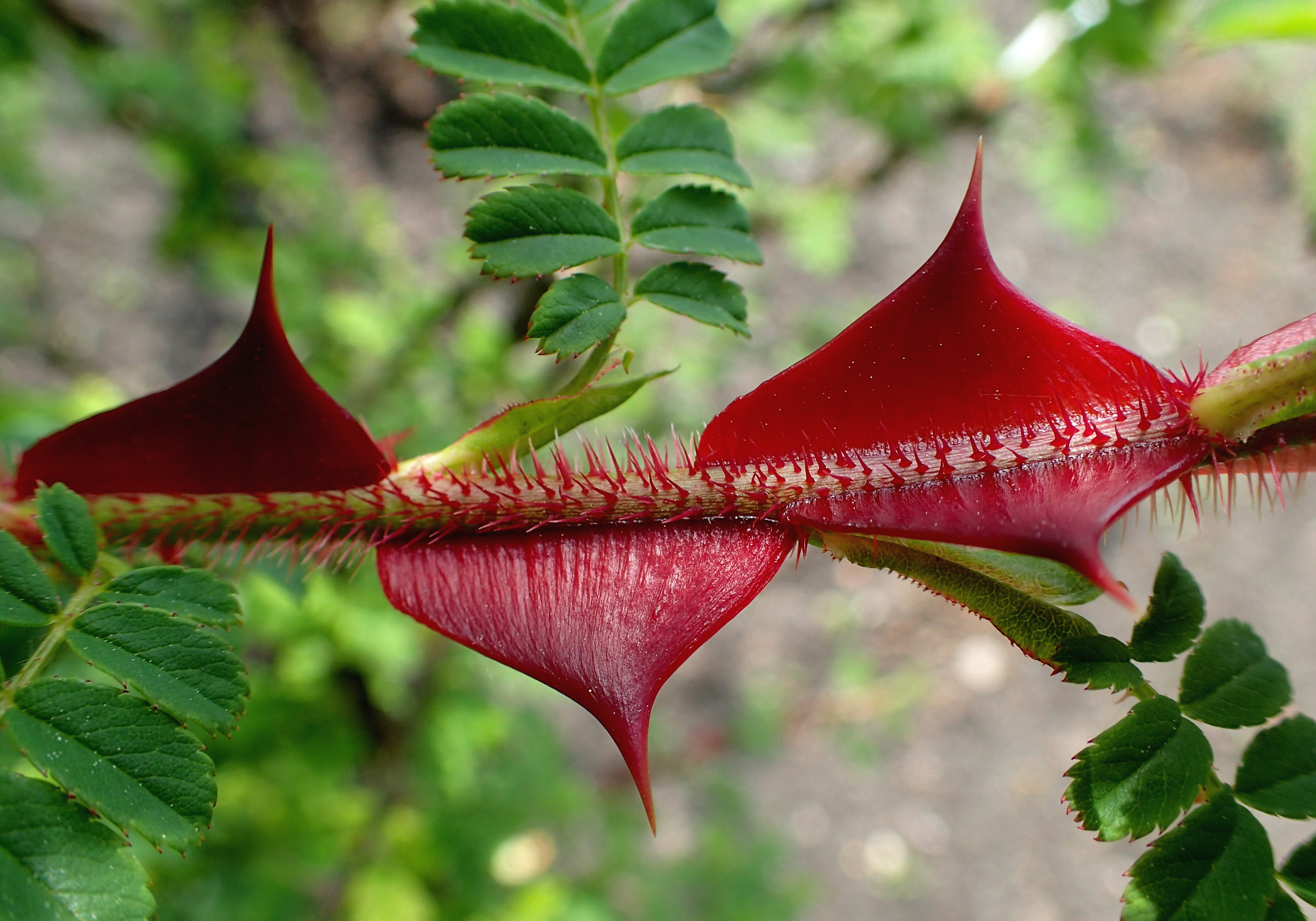 Rosa sericea (described as Rosa omeiensis) prickles in botanical garden in Kraków